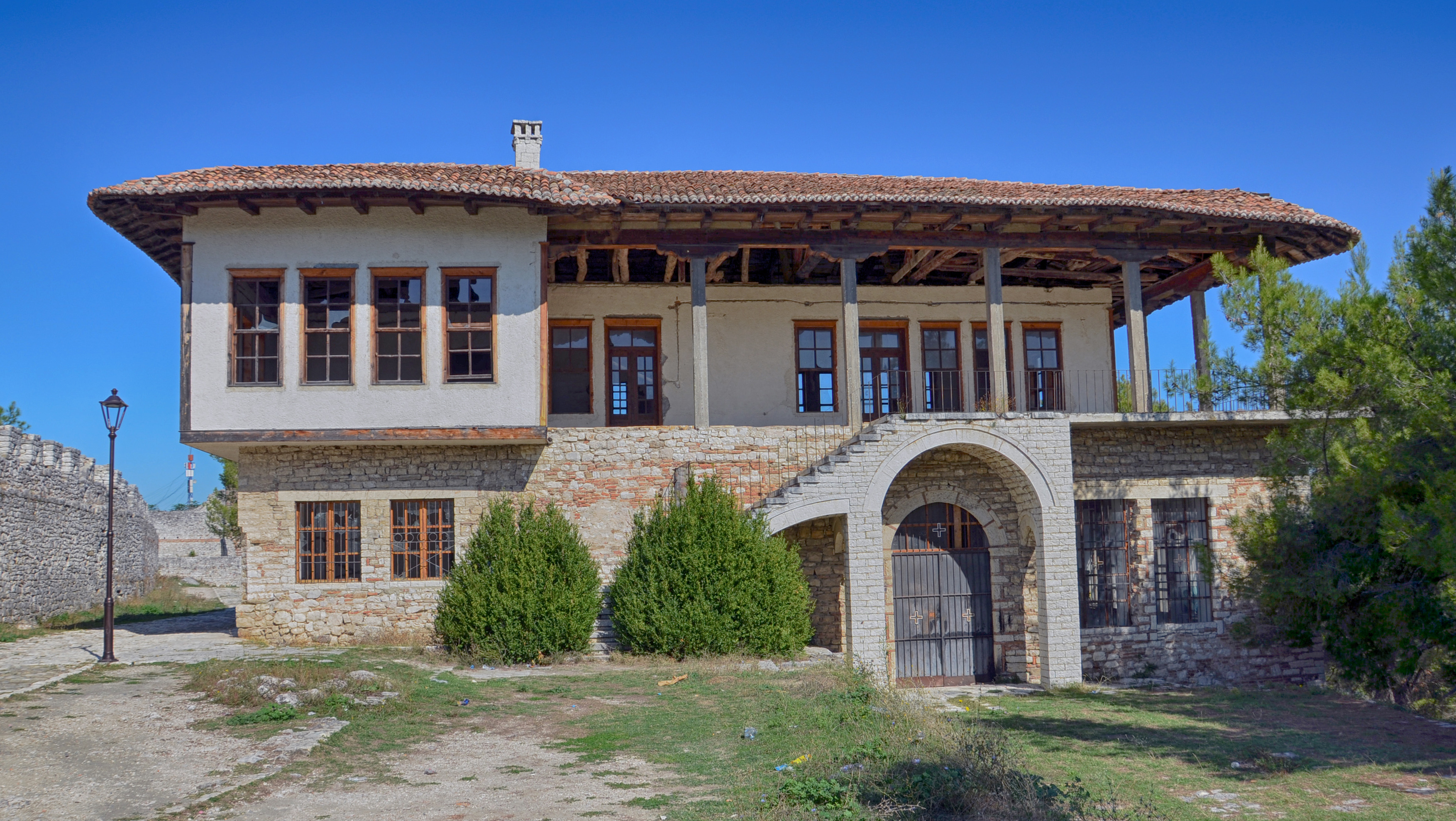 The former St George Churche, transformed into a restaurant in the 20th century, abandoned by now